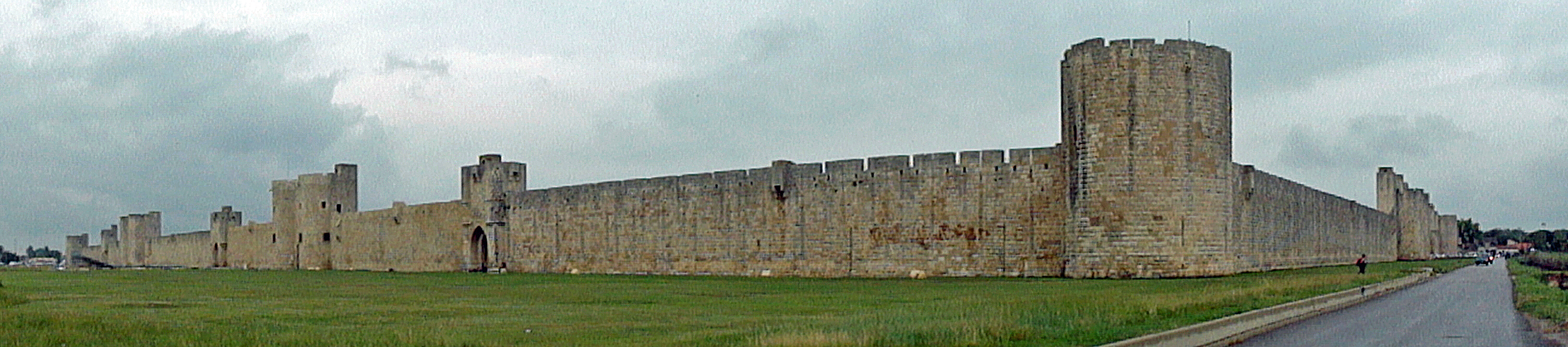 Panoramic view of the ramparts of Aigues Mortes